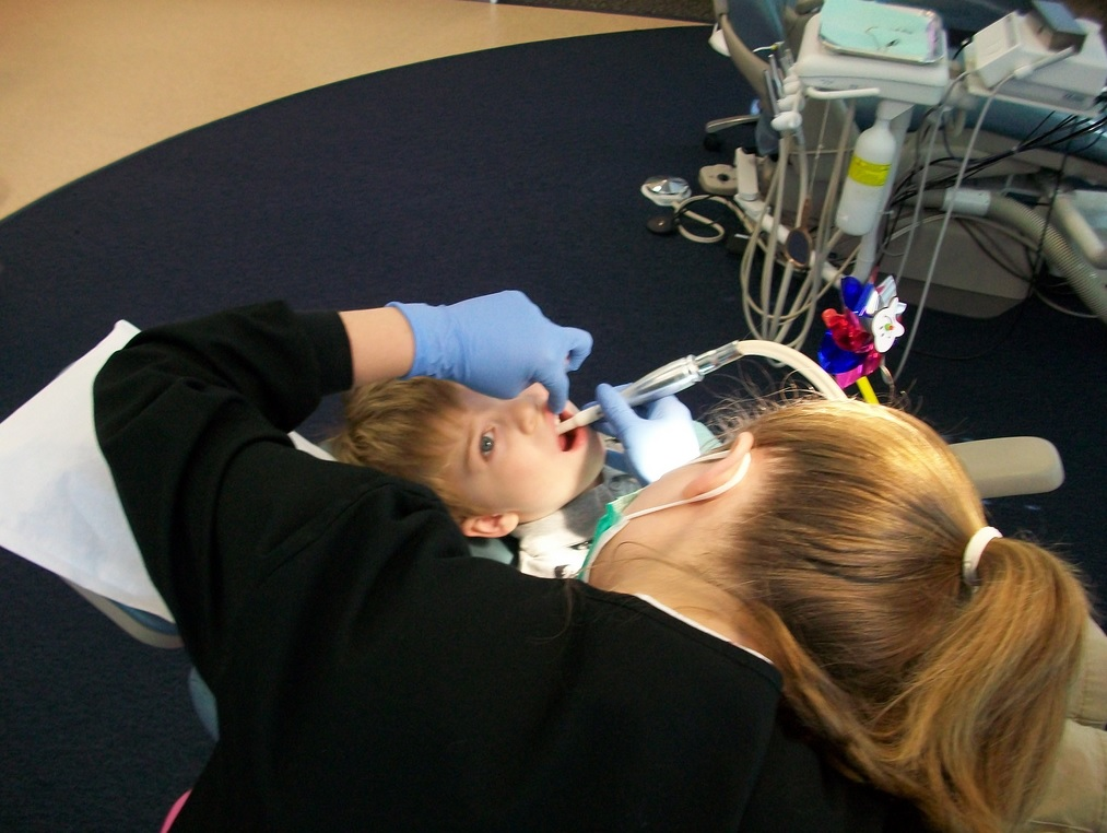 A dentist treating a small child